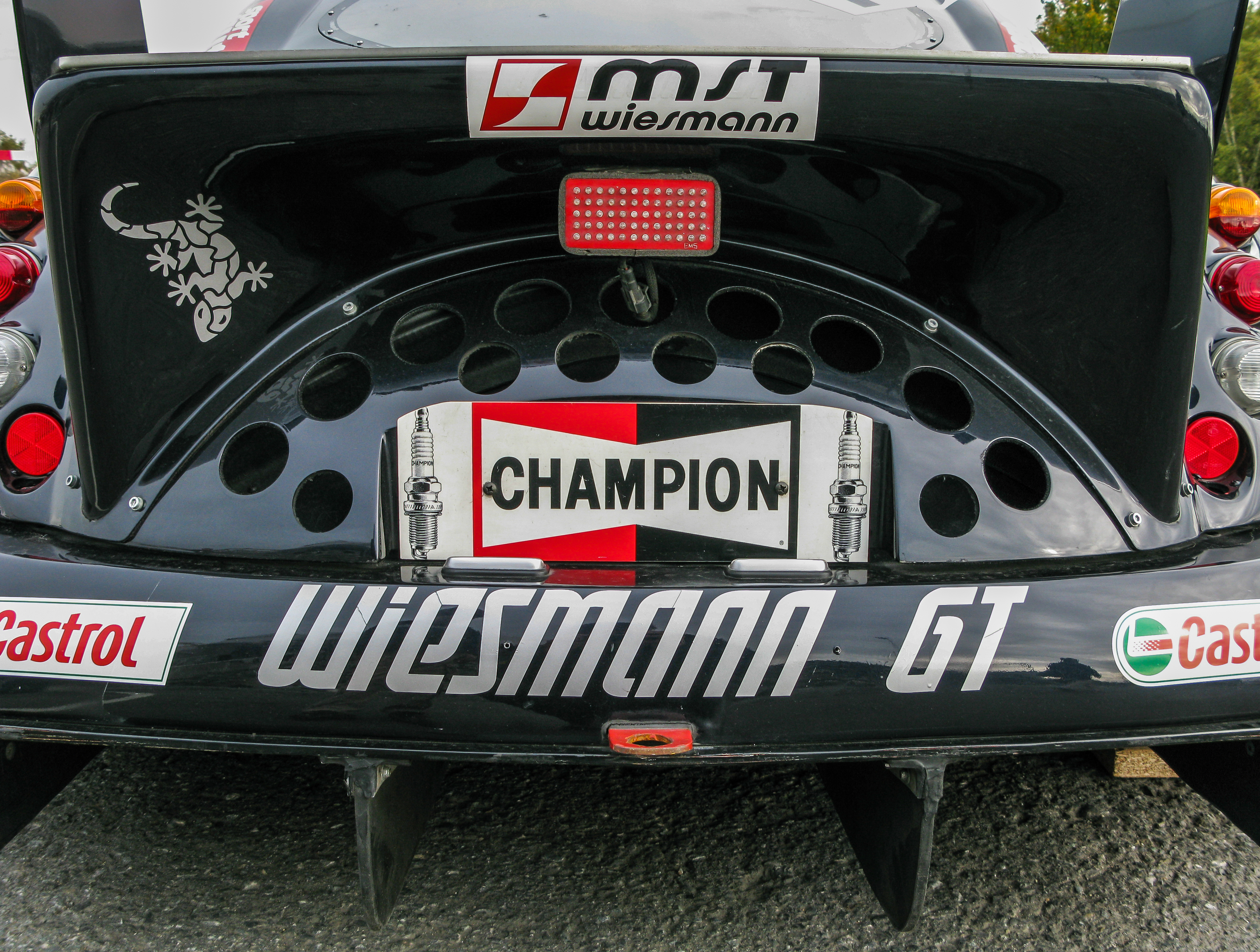 Back of a Wiesmann GT (racing car) at the Sportwagenmanufaktur Wiesmann (industrial area “An der Lehmkuhle”), Dülmen, North Rhine-Westphalia, Germany